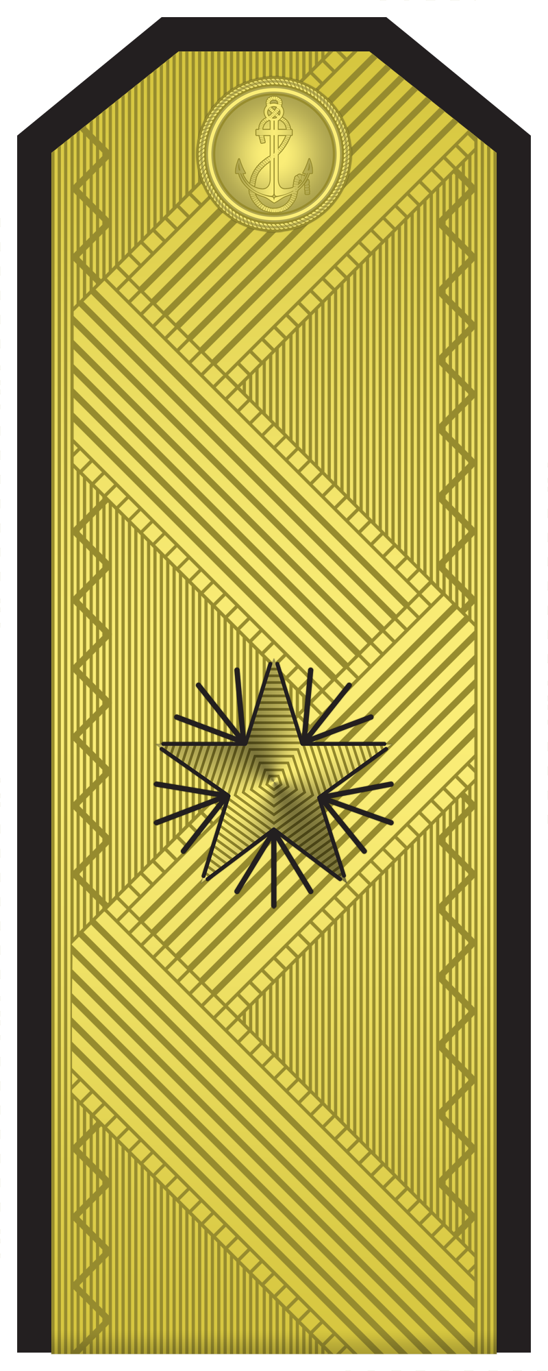 Shoulder rank insignia of Комодор (Commodore) of the Военноморски сили на България (Bulgarian Navy)